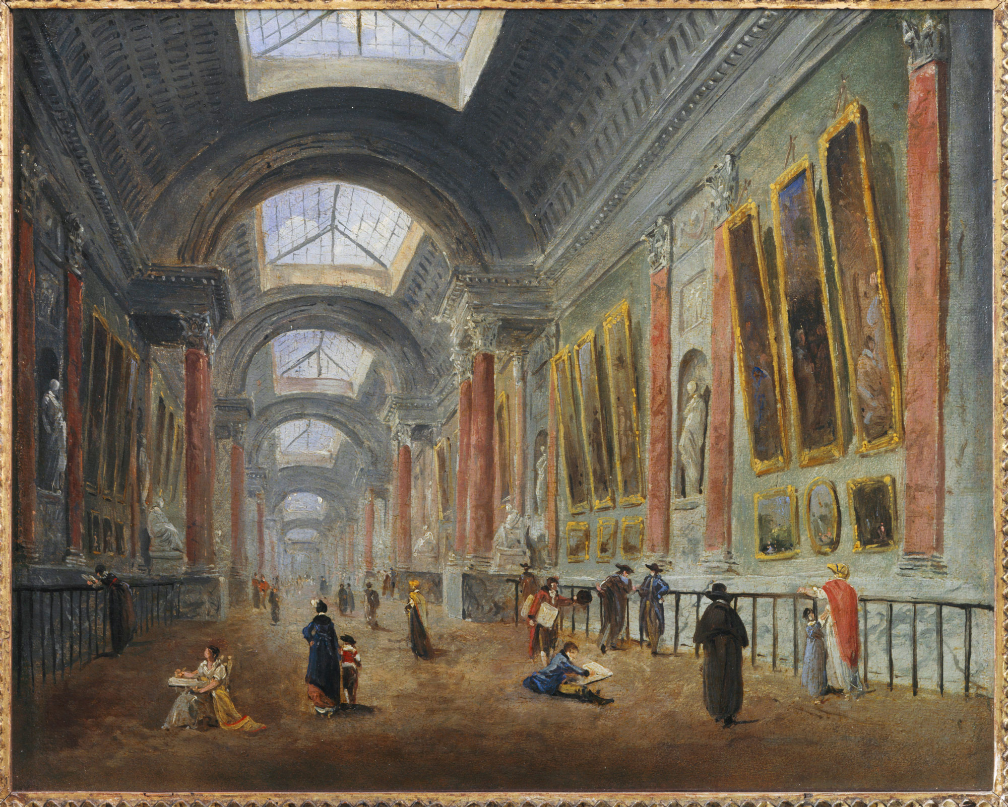 Hubert Robert, The Grande Galerie of the Louvre after 1801